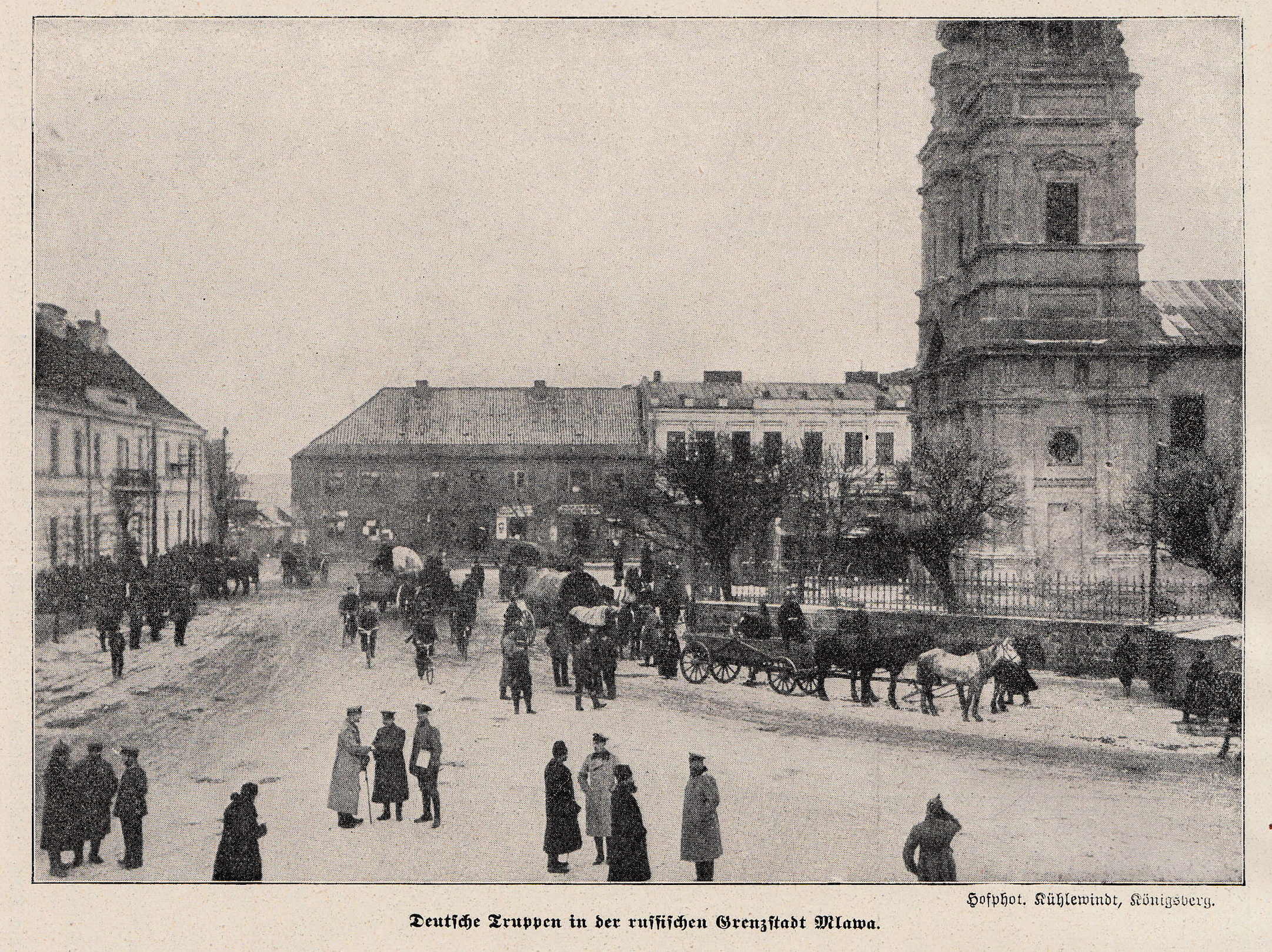 Der Krieg 1914-19 in Wort und Bild, Bong & Co., published 1919